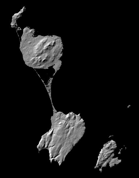 This image shows two islands, Miquelon and Saint Pierre